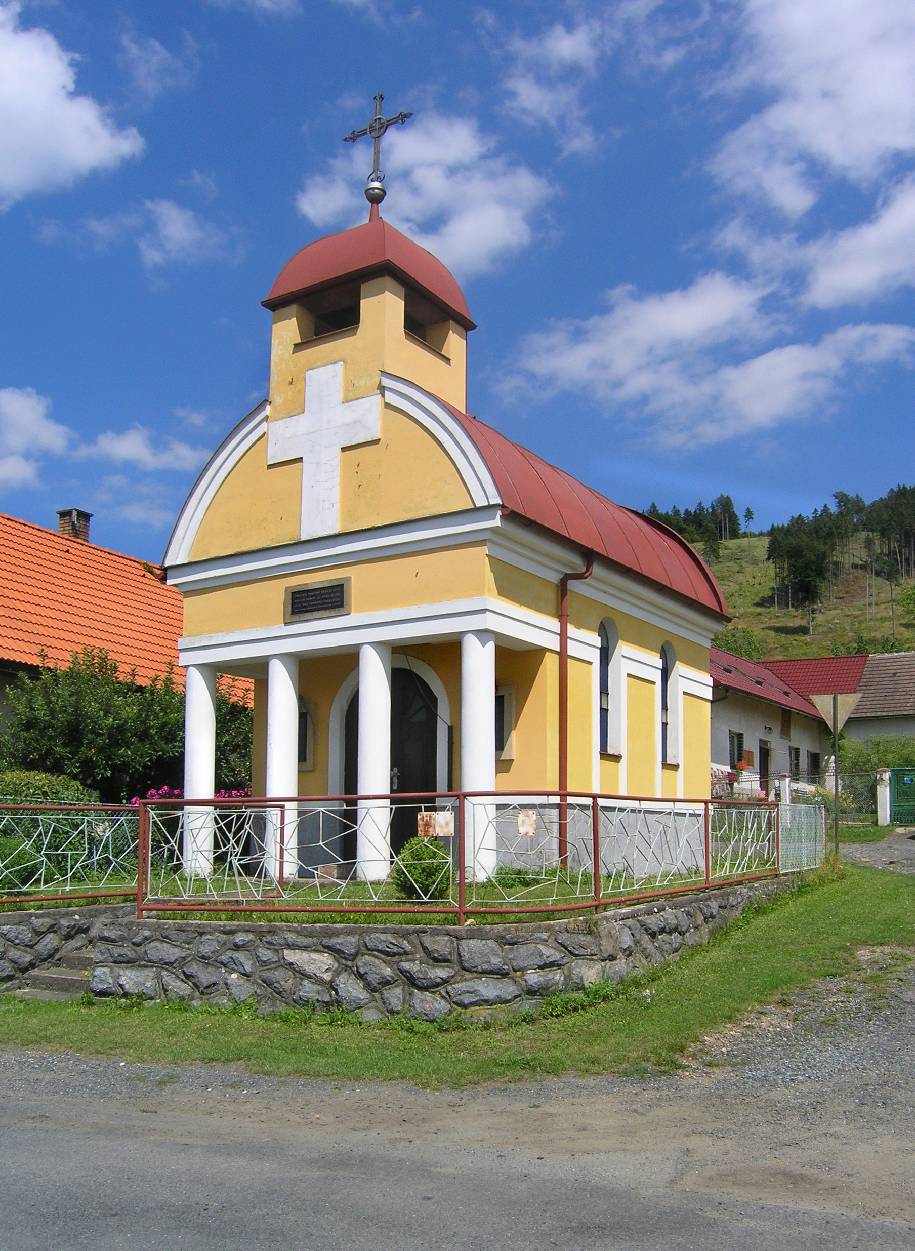 Chappel in Žlebské Chvalovice, Czech Republic